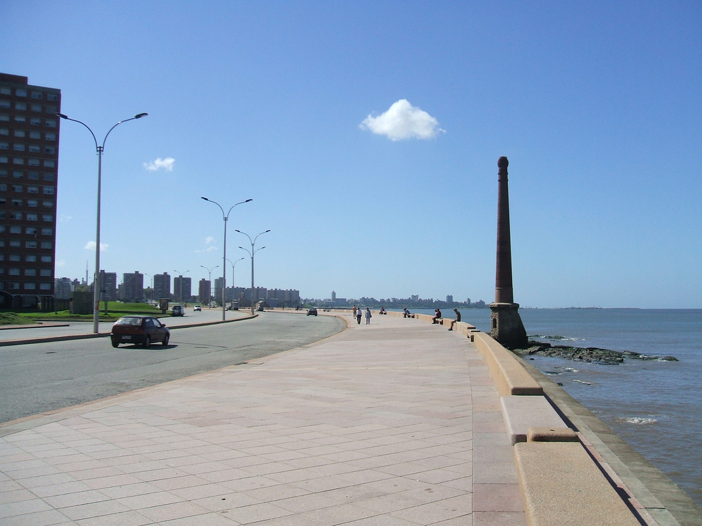 Avenue along the Rio de la Plata coast, Montevideo, Uruguay.